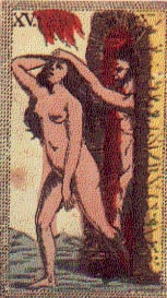 version of The Tower, a tarot card